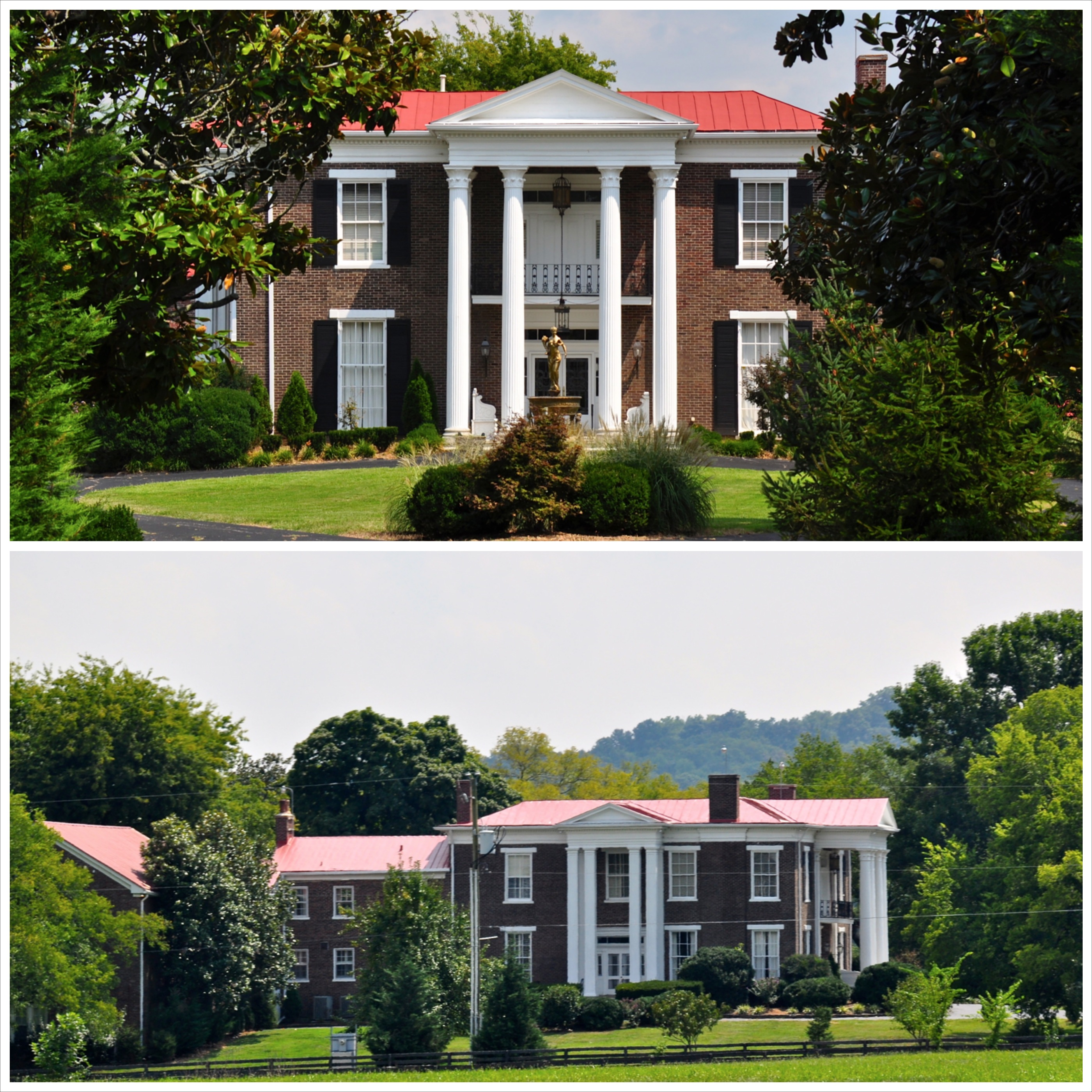 James Johnston House, South of Brentwood on U.S. Route 31 Brentwood